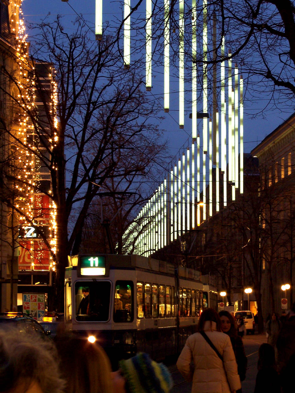 Zürich's Bahnhofstrasse is decorated with lights for the Christmas period. In 2005, these new LED lights were introduced. In this view, a route 11 Be 4/6 "Tram 2000" tram set runs underneath.